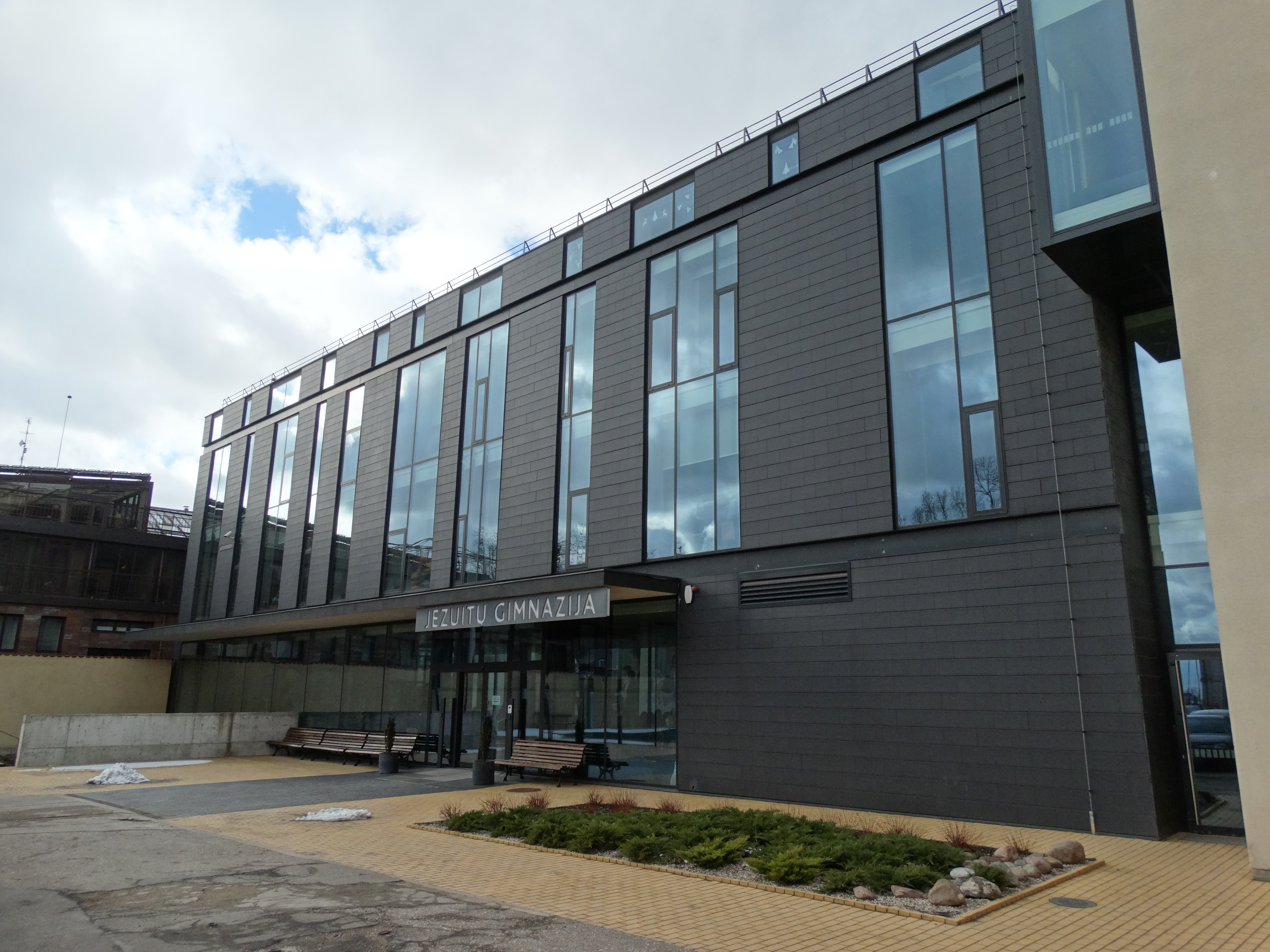 Jesuit gymnasium, Kaunas, Lithuania